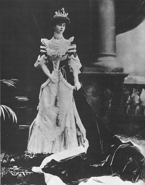 Consuelo Vanderbilt Dressed for 1911 coronation of King George V